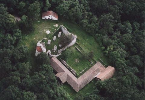 Vértesszentkereszt, Hungary, aerialphotgraphy